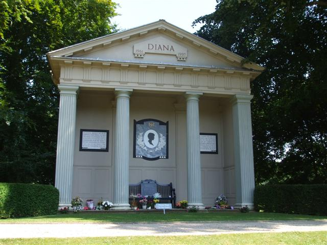 Diana Memorial, Althorp It is facing island in the lake at Althorp House where she is buried